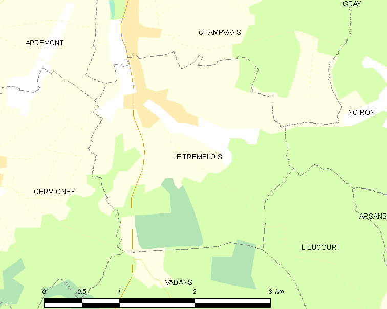 Map of French municipality